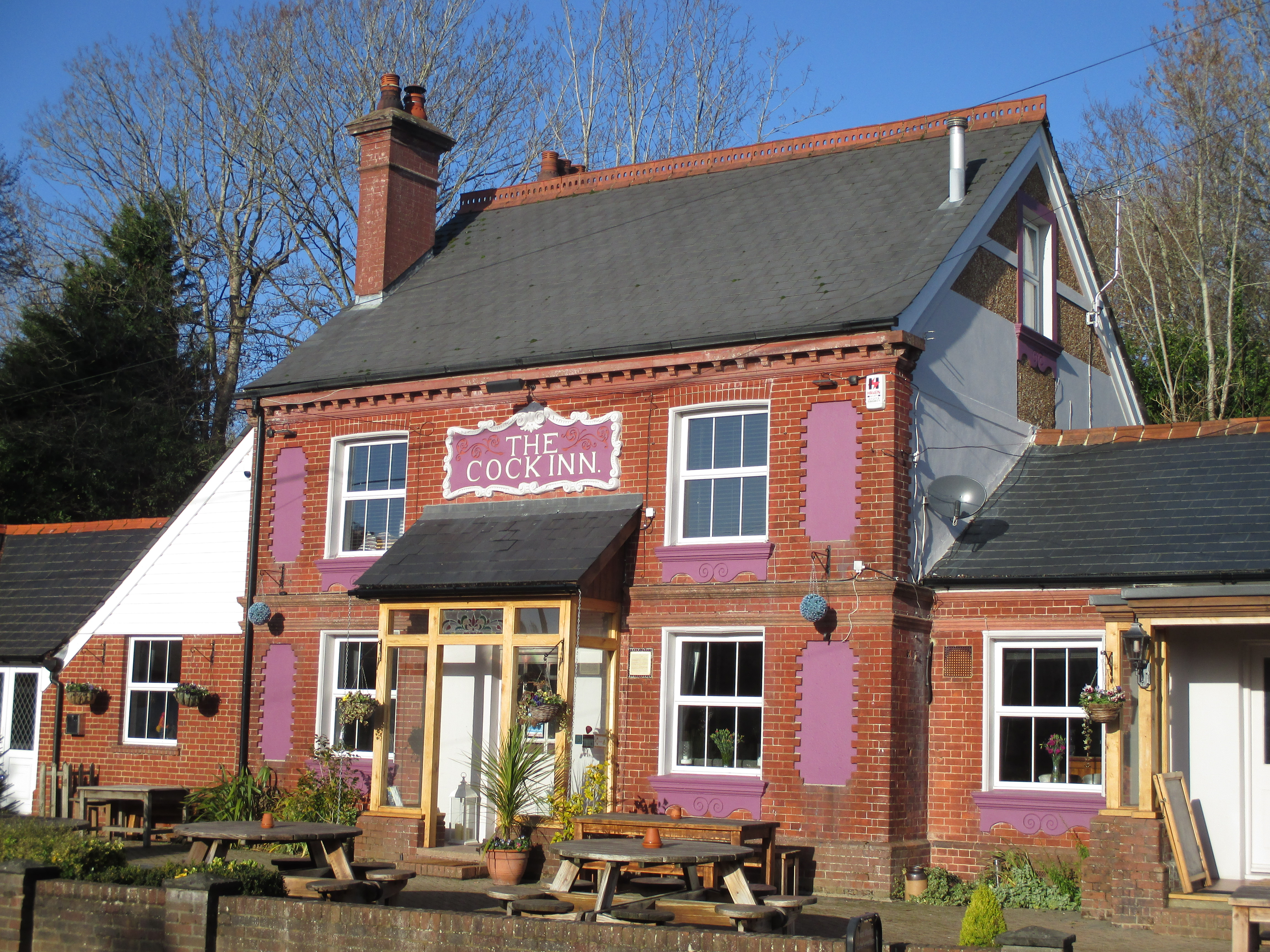 The Cock Inn, Wivelsfield Green, West Sussex